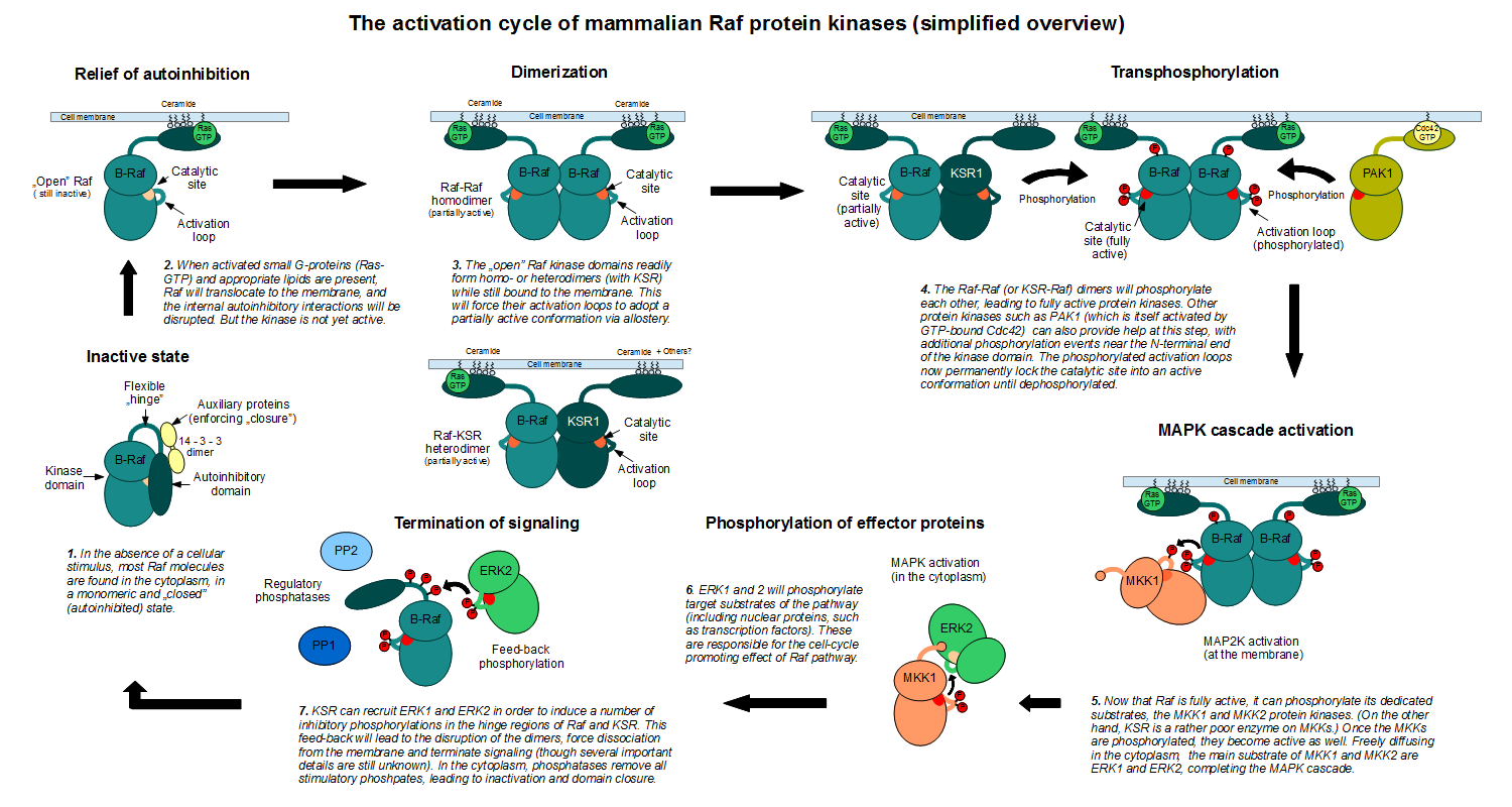 A figure showing the activation cycle of mammalian Raf proteins (simplified)